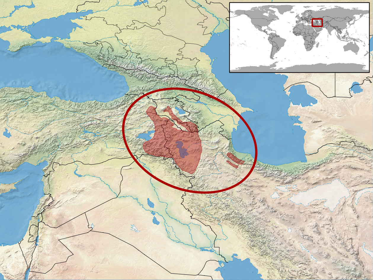 geographic distribution of Montivipera raddei (Native: Armenia (Armenia); Azerbaijan; Iran, Islamic Republic of; Iraq; Turkey) Range including Montivipera albicornuta, sometimes recognized as conspecific.